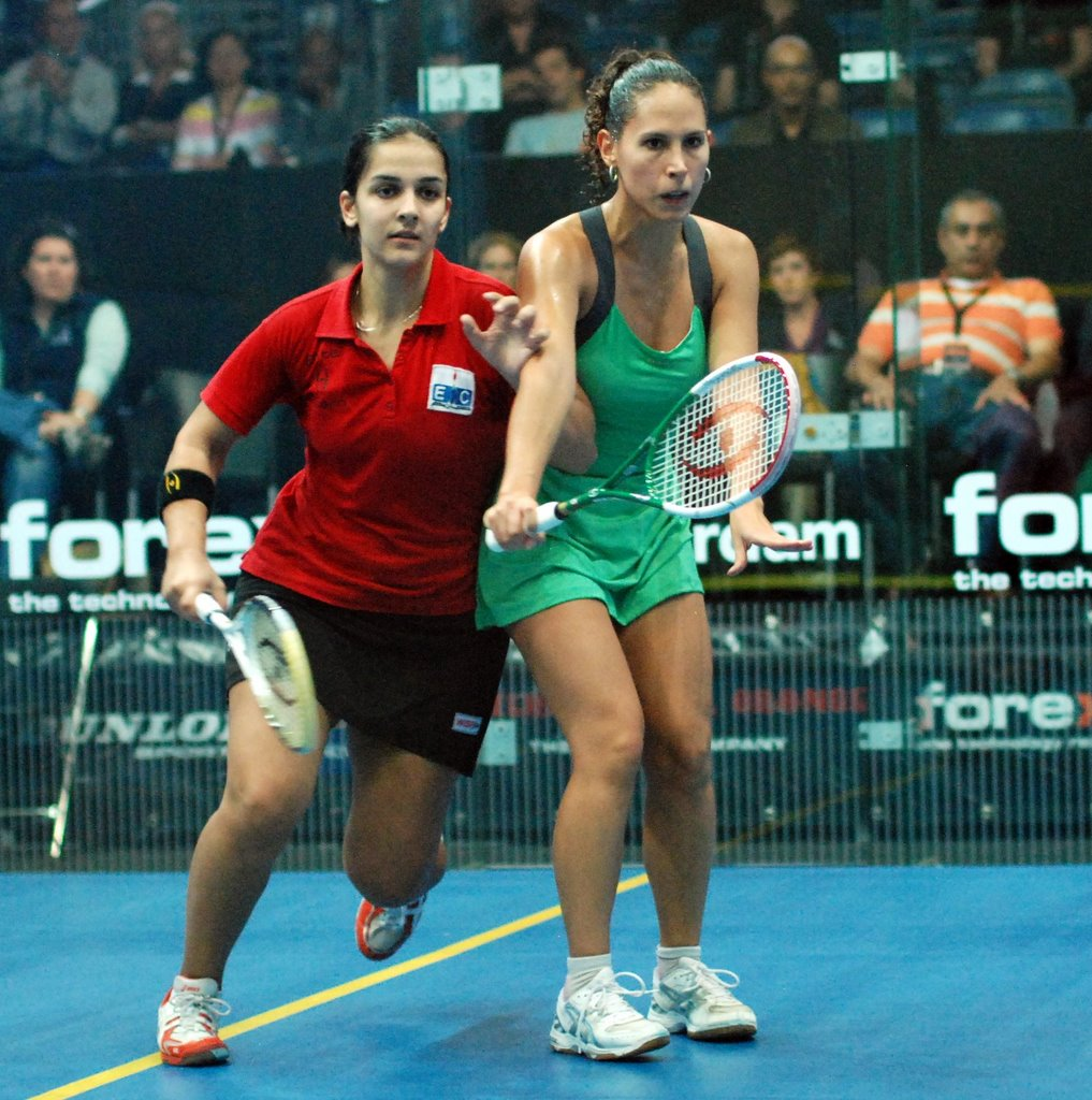 Omneya Abdel Kawy and Samantha Teran during their second round match at the Women's World Open 2009.